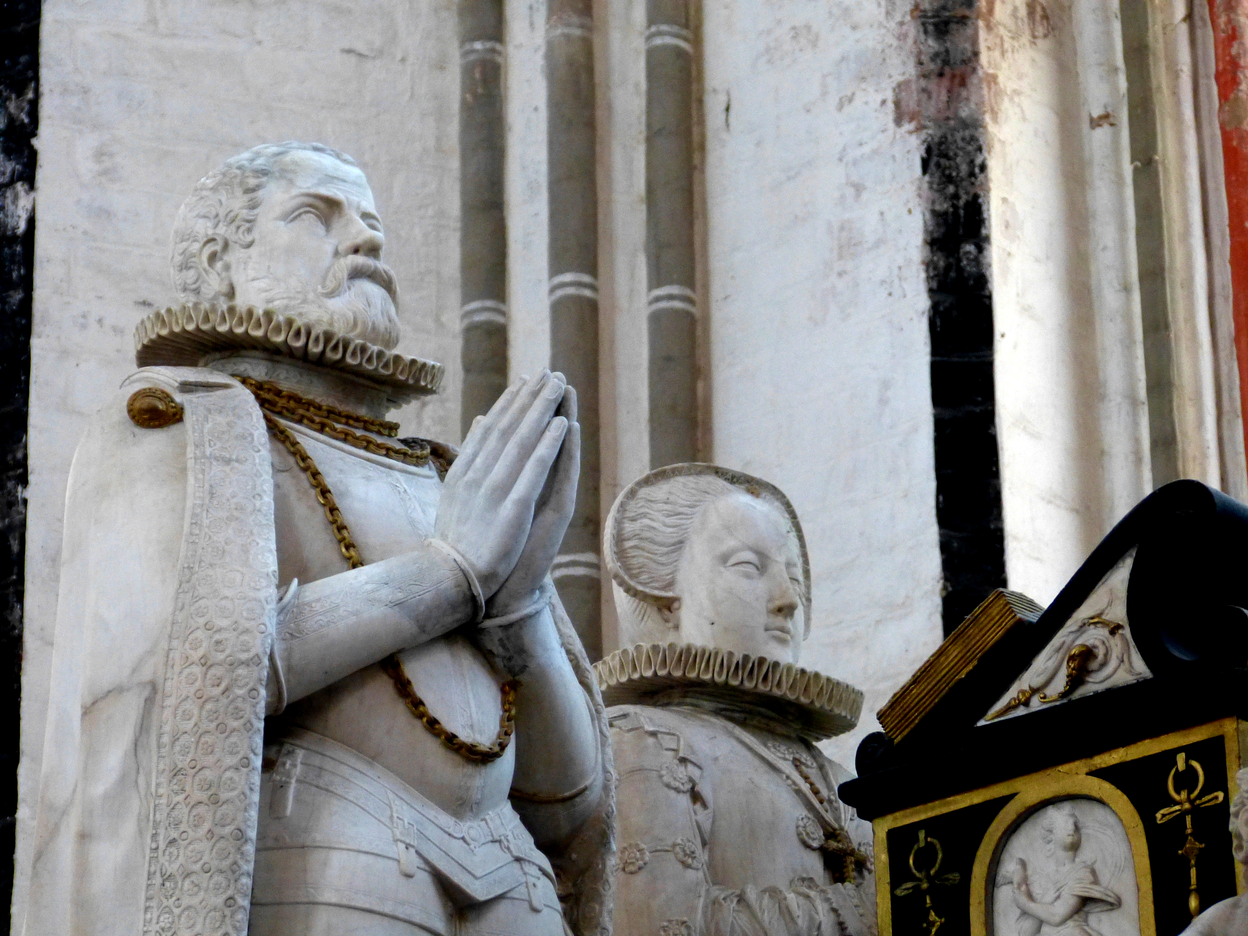 Schwerin Cathedral ( Mecklenburg ). Grave monument of Christoph of Mecklenburg and his wife Elisabeth of Sweden ( 1595 ) by Robert Coppens - detail.